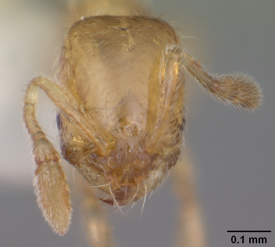 Head view of ant Solenopsis abdita specimen casent0104494.